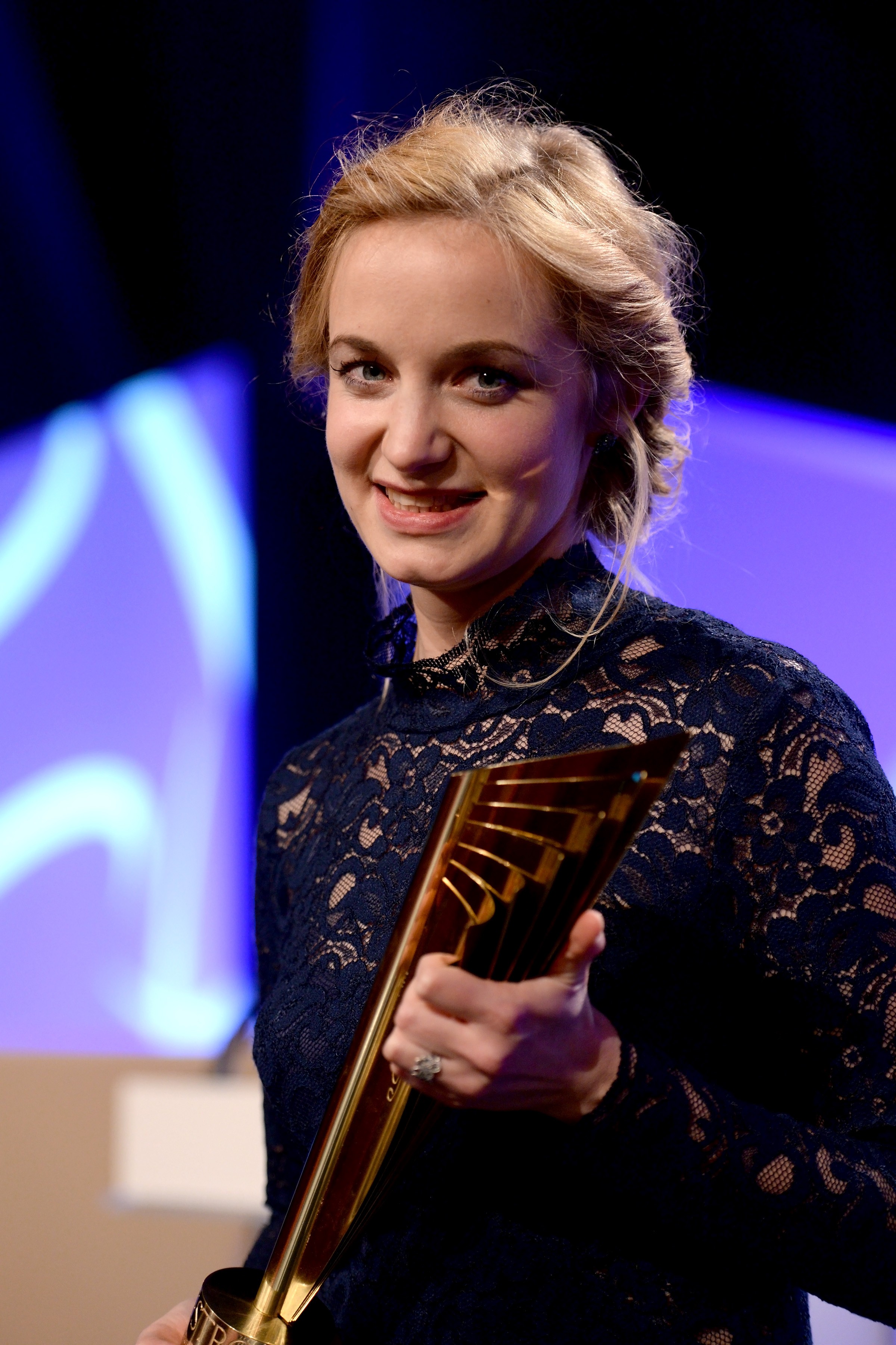 Raphaela Möst - Nestroy Theatre Awards 2014 at Wiener Stadthalle (Vienna, Austria).